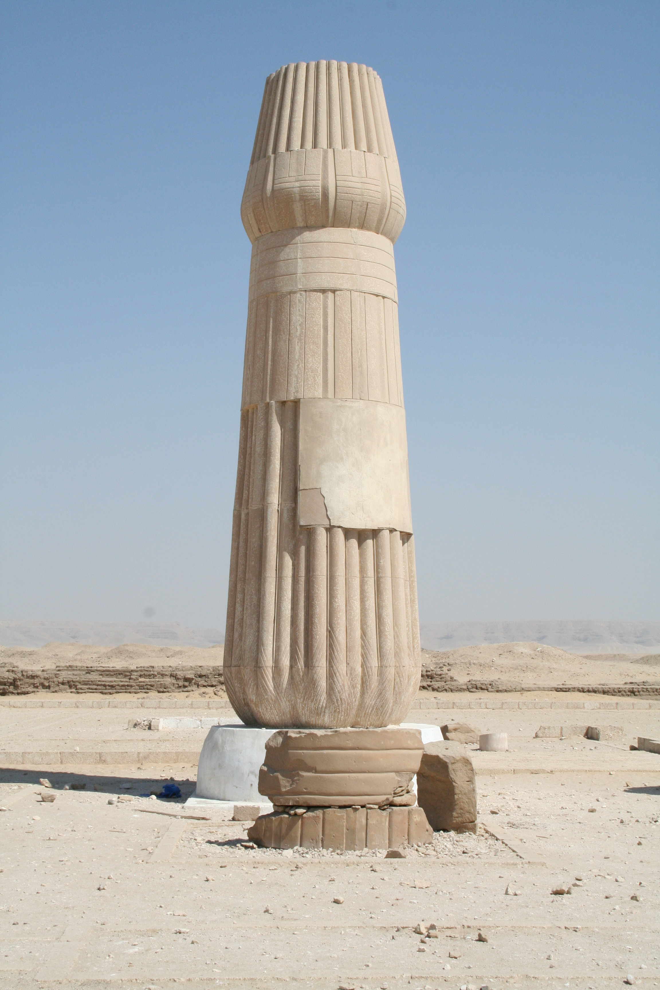 Small Temple of Aten at Tell el-Amarna